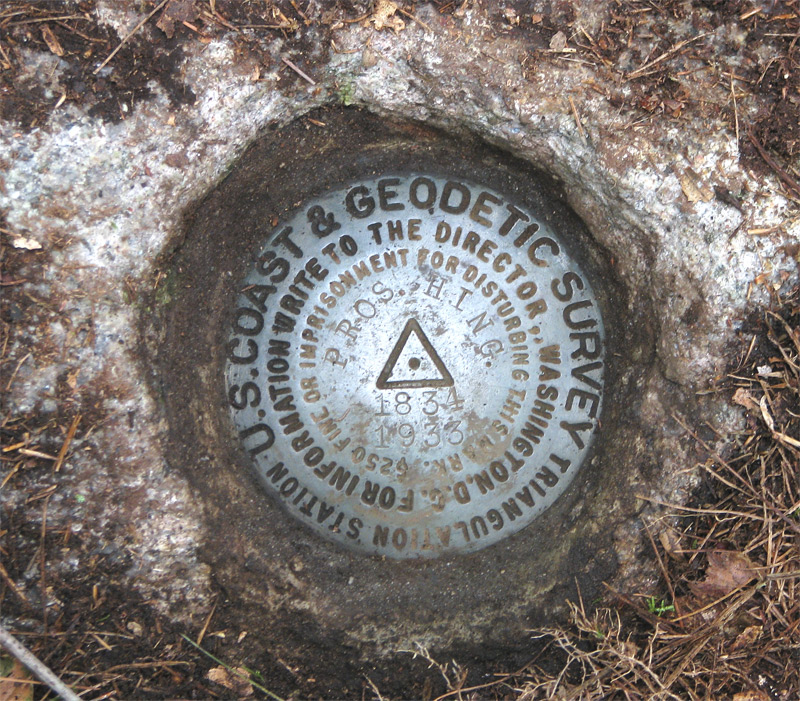 This is the station mark for station MY4112--PROSPECT HINGHAM, located at the peak of Prospect Hill in Wompatuck State park, Hingham, MA. This is a brass disk, about 3.5 in. in diameter. The triangle indicates that this is a station mark, and the small dot at its center indicates the precise location of the station. The disk has been recessed into a depression chiseled into a rock ledge. The original station mark (a copper bolt) was set in 1834, and was reset with this more modern disk in 1933.